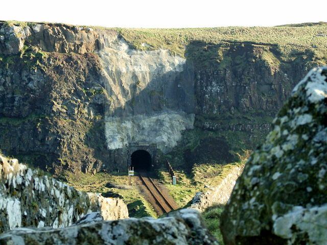 Downhill Railway Runnel Downhill tunnel taken from cliffs above. This tunnel was closed from time to time due to falling rock. This picture shows clearly the work that was carried out by N.I.R. to prevent any further slippage or landslides.